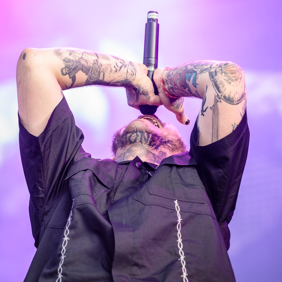 Post Malone at the main stage at Stavernfestivalen. The concert took place on 14. July 2018 in Stavern. Lineup:Post Malone (rap)